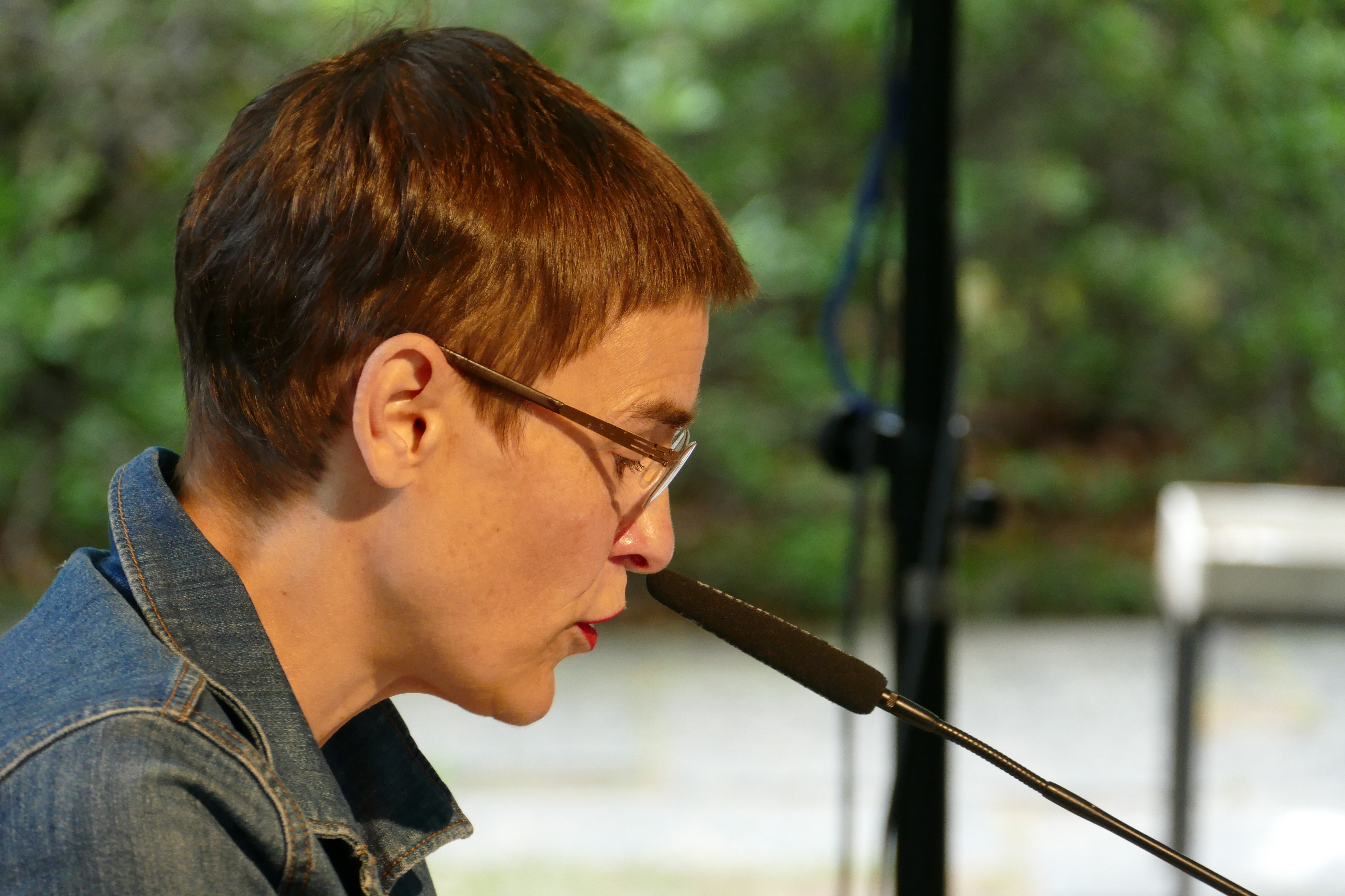 Odile Kennel at the Poesiefestival Berlin 2018